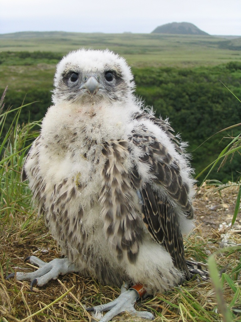 A chick Gyrfalcon on a nest in Yukon Delta National Wildlife Refuge, Alaska, USA.